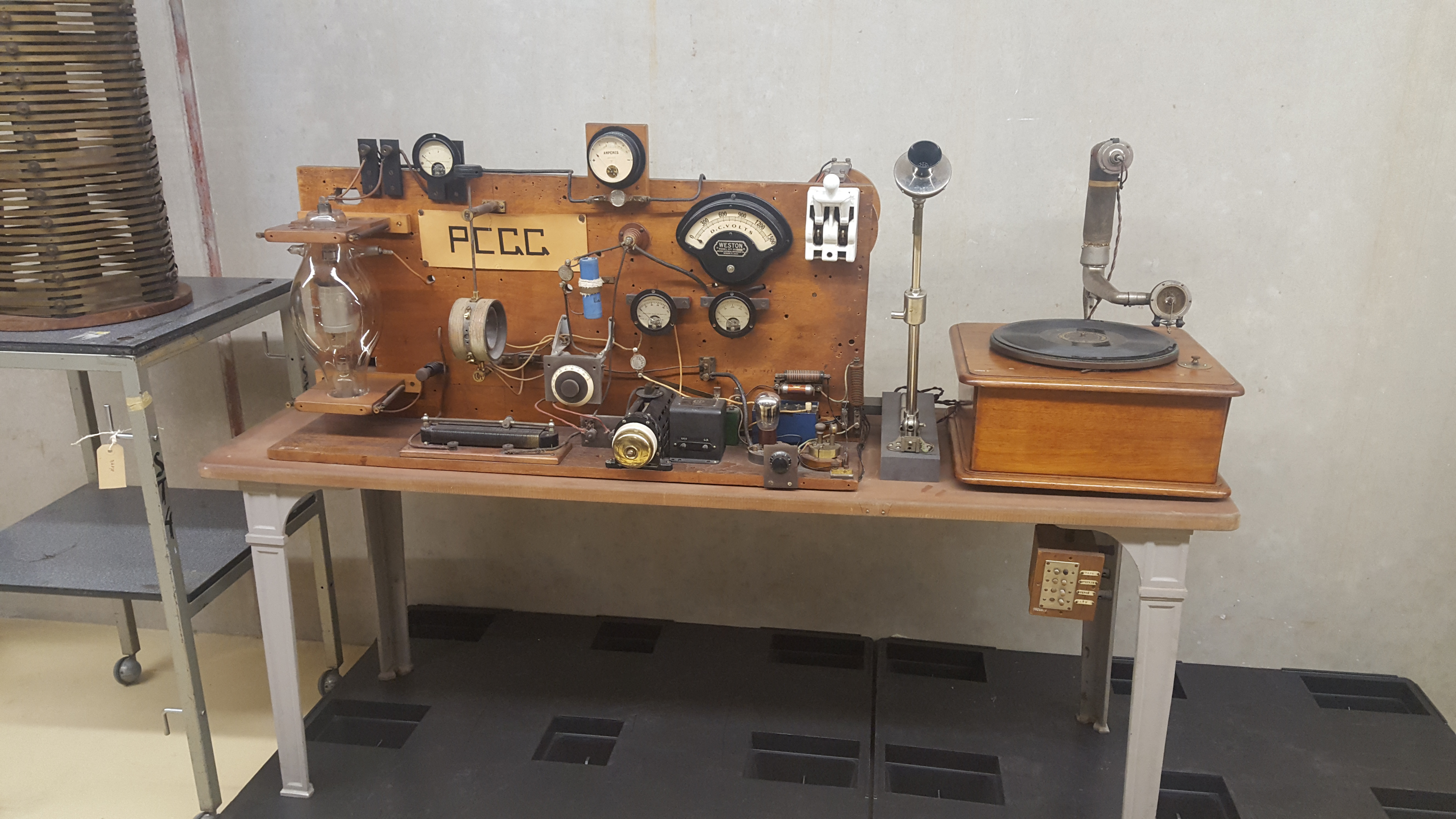 Radio transmitter used for the first radio broadcast of broadcasting organisation by Hans Idzerda. Wikipedia edit-a-thon at the Netherlands Institute for Sound and Vision, Hilversum.